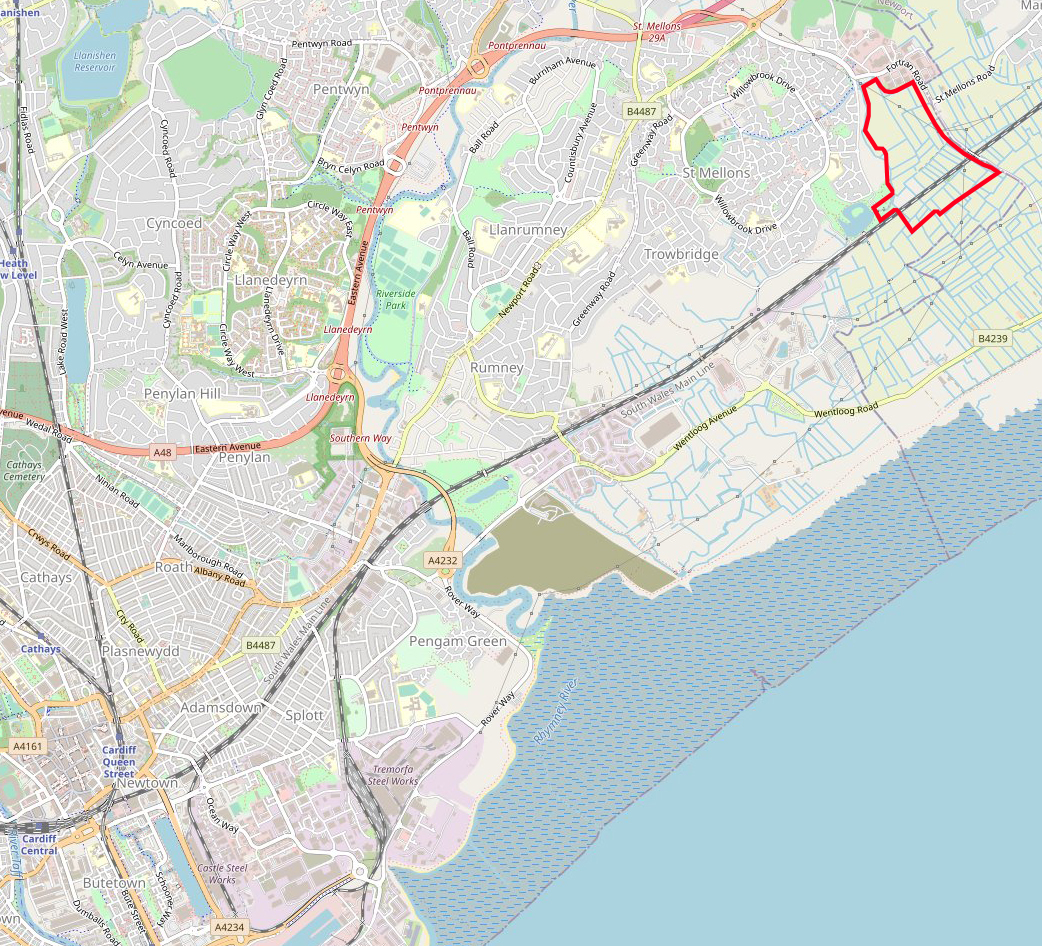 Location of the proposed Cardiff Parkway railway station site in relation to Cardiff city centre